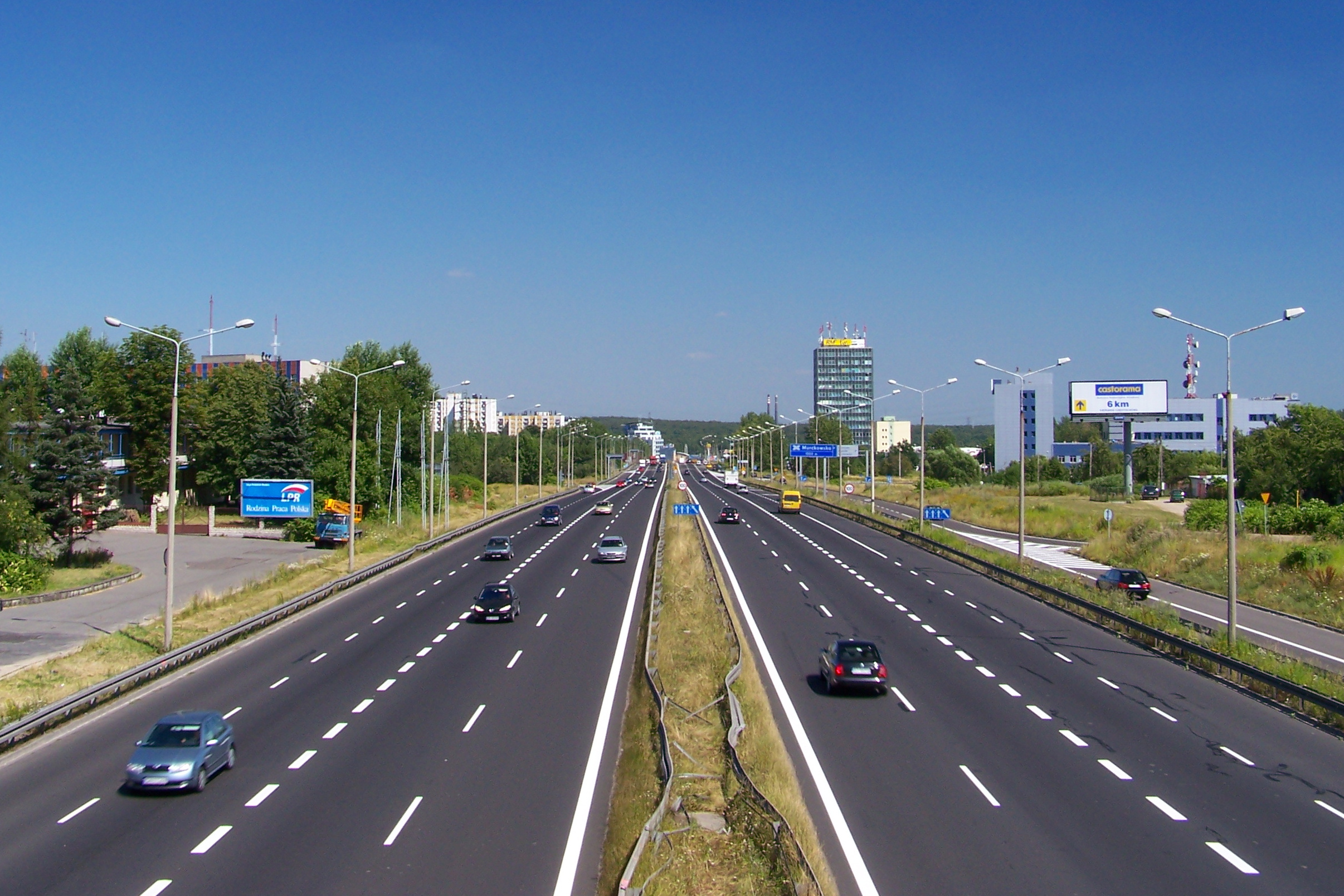 Górnośląska Avenue in Katowice.